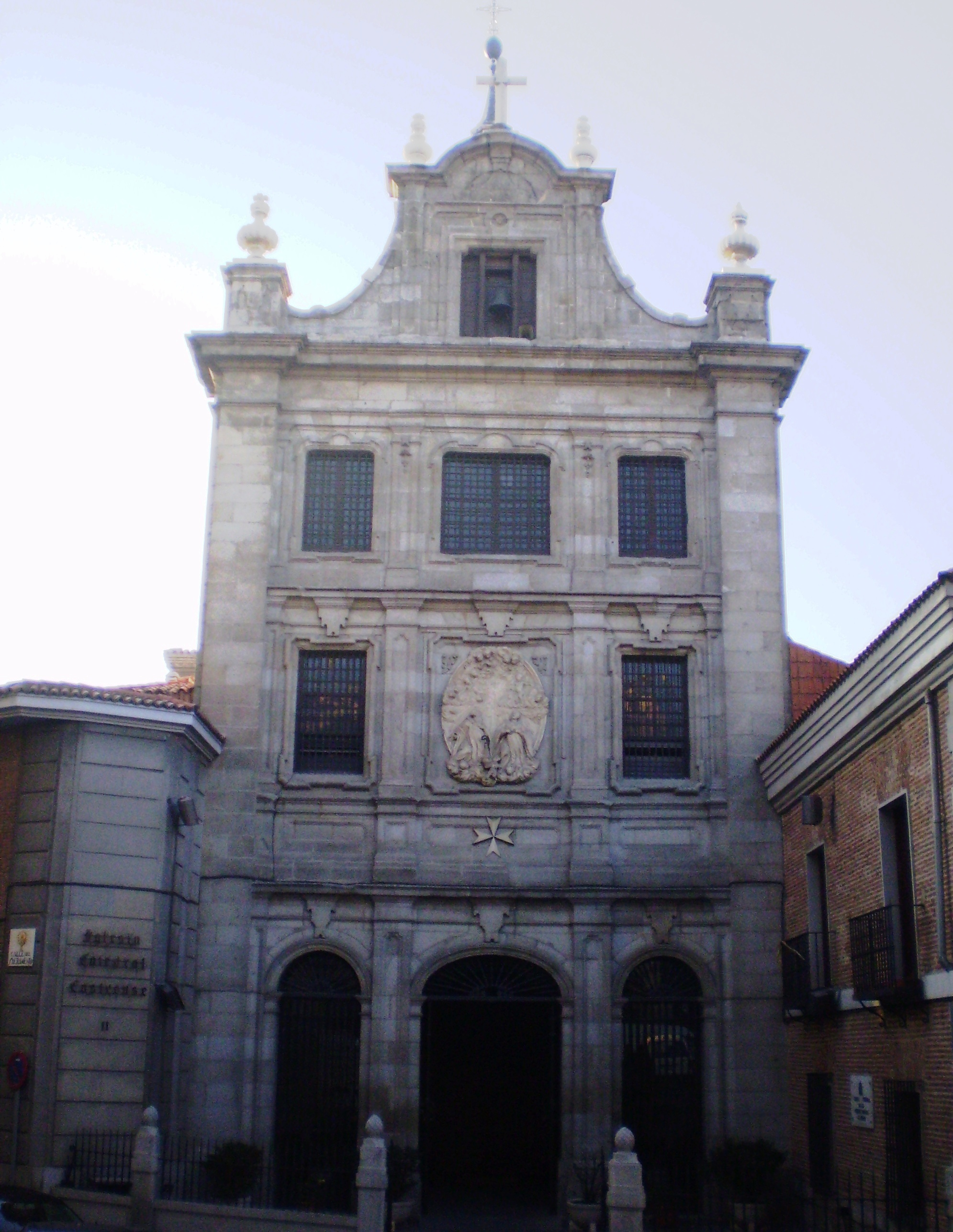 Catedral Arzobispal Castrense, in Sacramento St (Madrid, Spain)